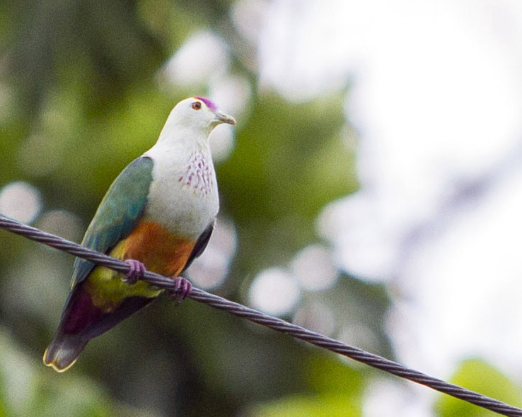 Photograph of the Palau Fruit Dove (Ptilinopus pelewensis) photographed on Babeldaob Palau in 2013 by Devon Pike.